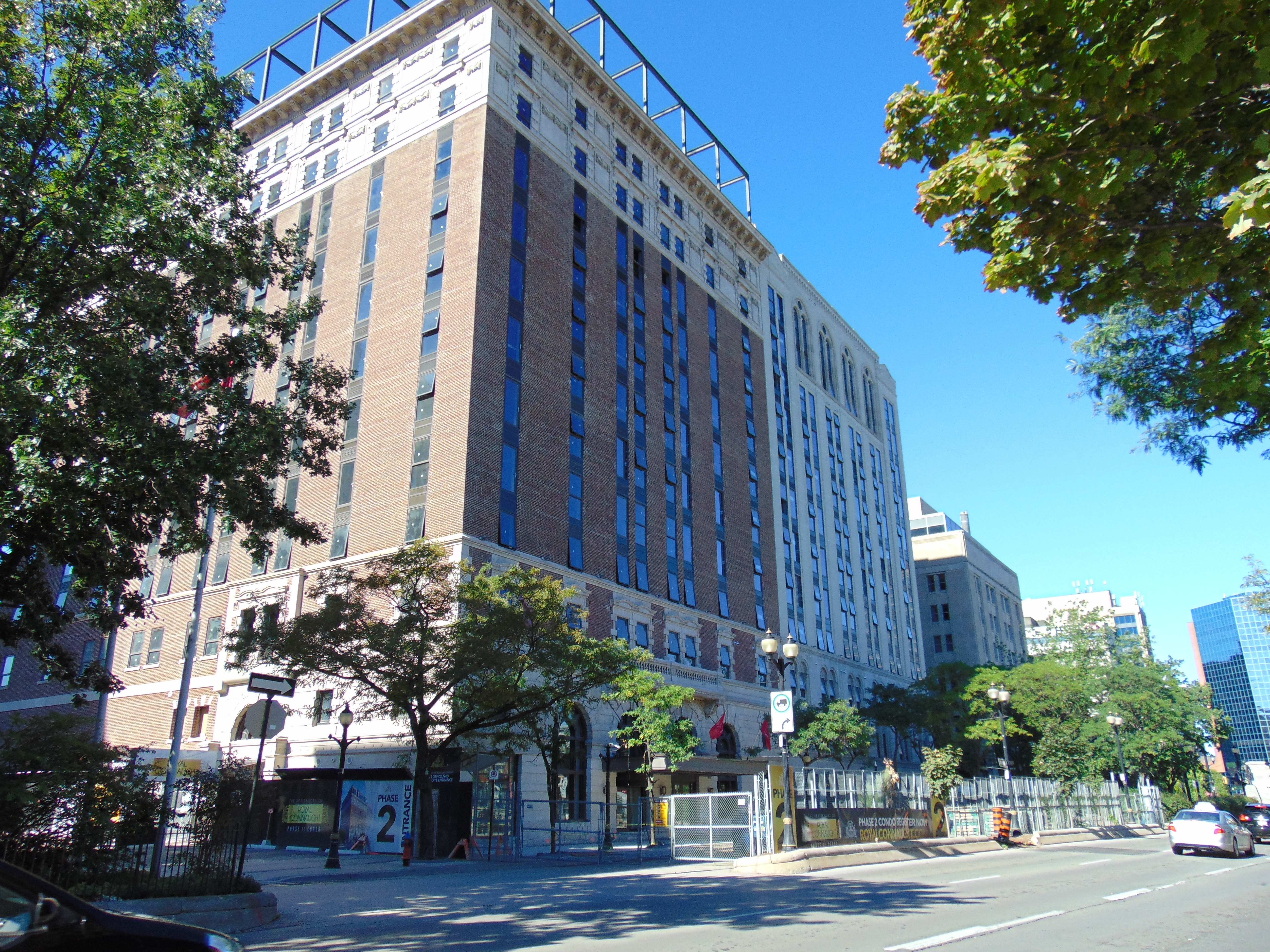 Ongoing renovations of The Royal Connaught